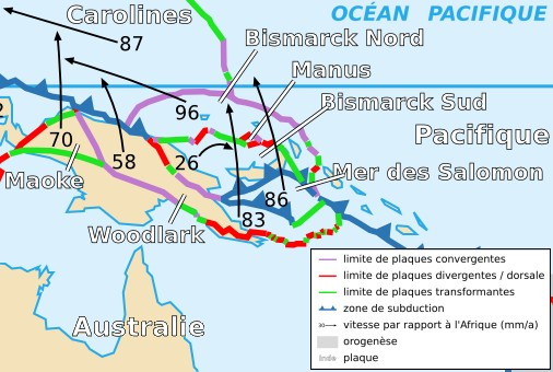 Map of the Woodlark Plate